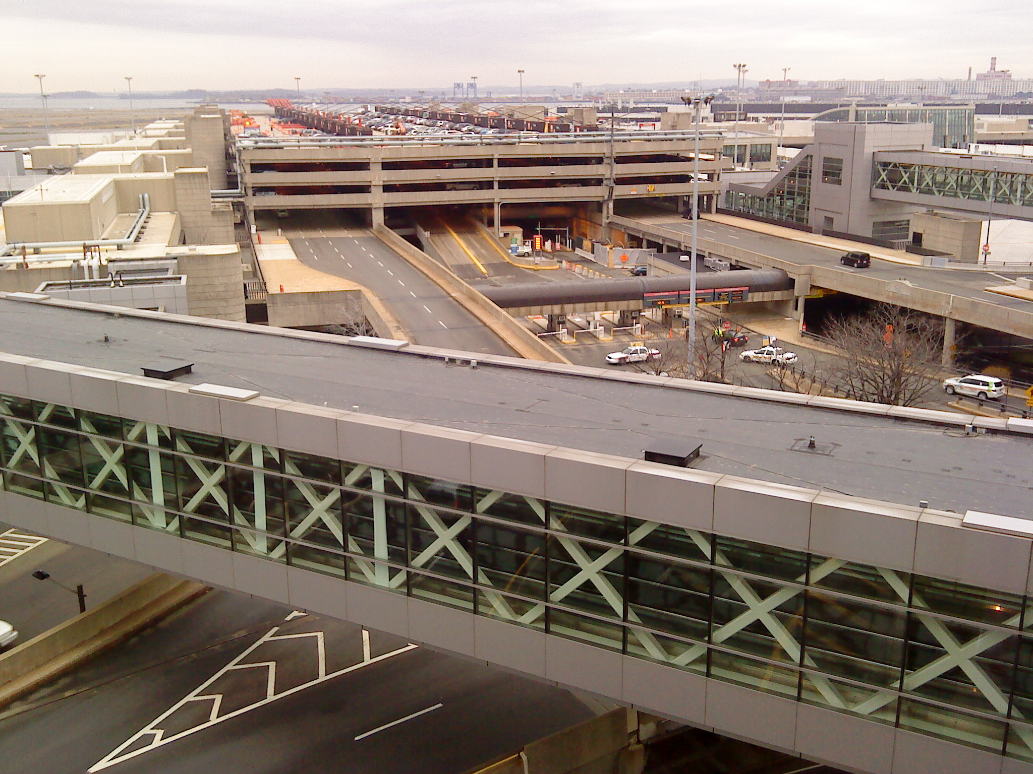 Terminal B, at Boston's Logan International Airport. NOTE: Terminal stretches along both sides of the parking facility in the middle.